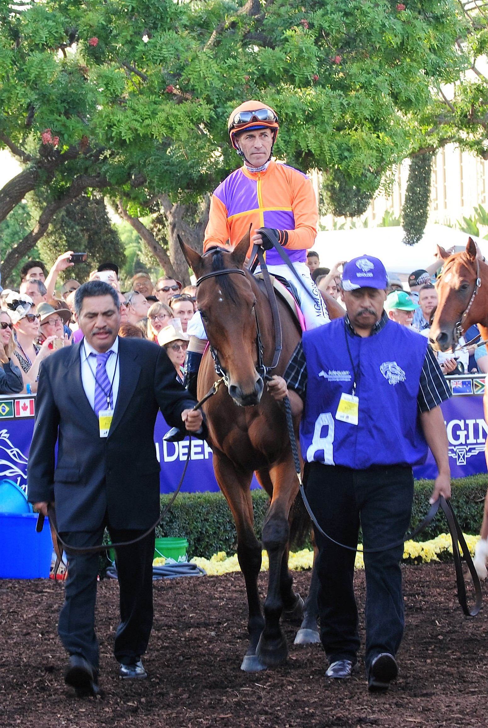 Beholder in the paddock for the Breeders' Cup Distaff. Gary Stevens is up